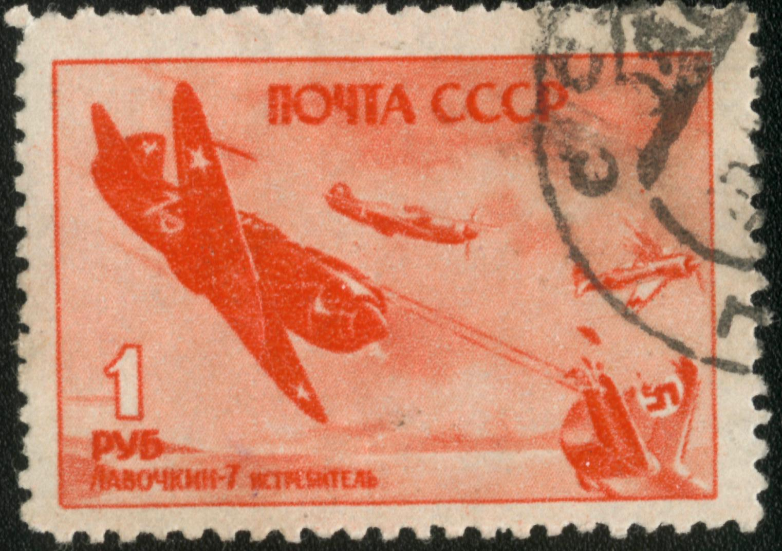 USSR stamp, Lavochkin La-7 fighter aircraft, 1945, CPA #993, 1 ruble, used.